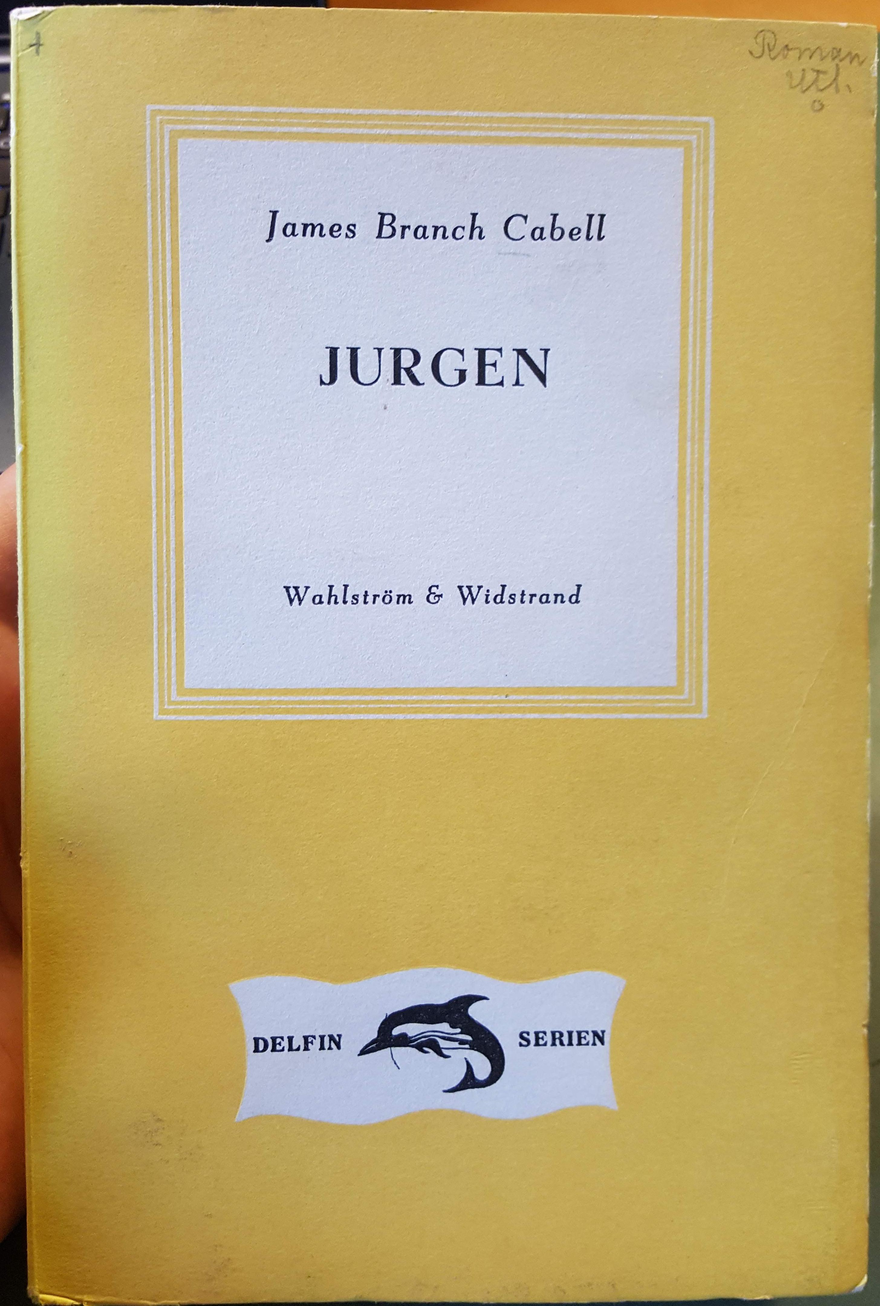 Cover of the Swedish 1949 first edition of James Branch Cabell's novel "Jurgen"